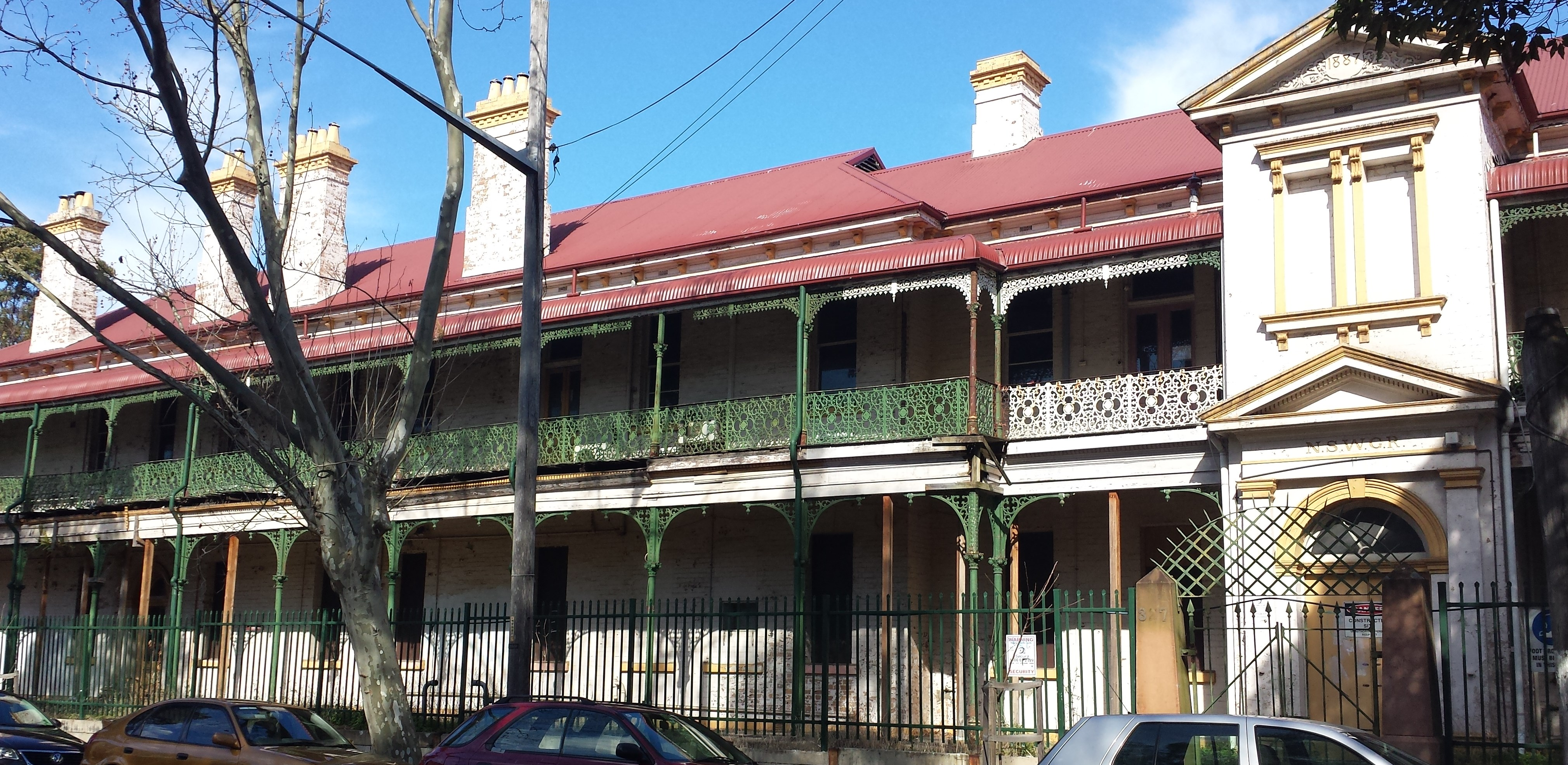 Darlington, New South Wales. The imposing Chief Mechanical Engineers Office built in 1887 for the Eveleigh Railway Workshops, still stands on Wilson St and is awaiting adaptive reuse. author: muzzawb